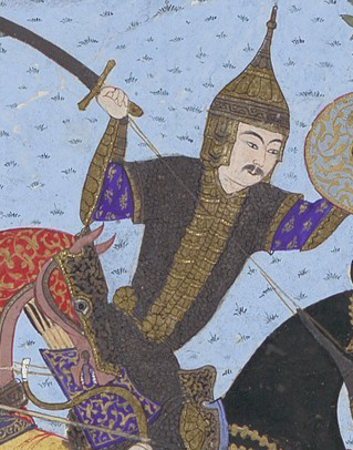 Painting of Sufaray in The Shahnama of Shah Tahmasp